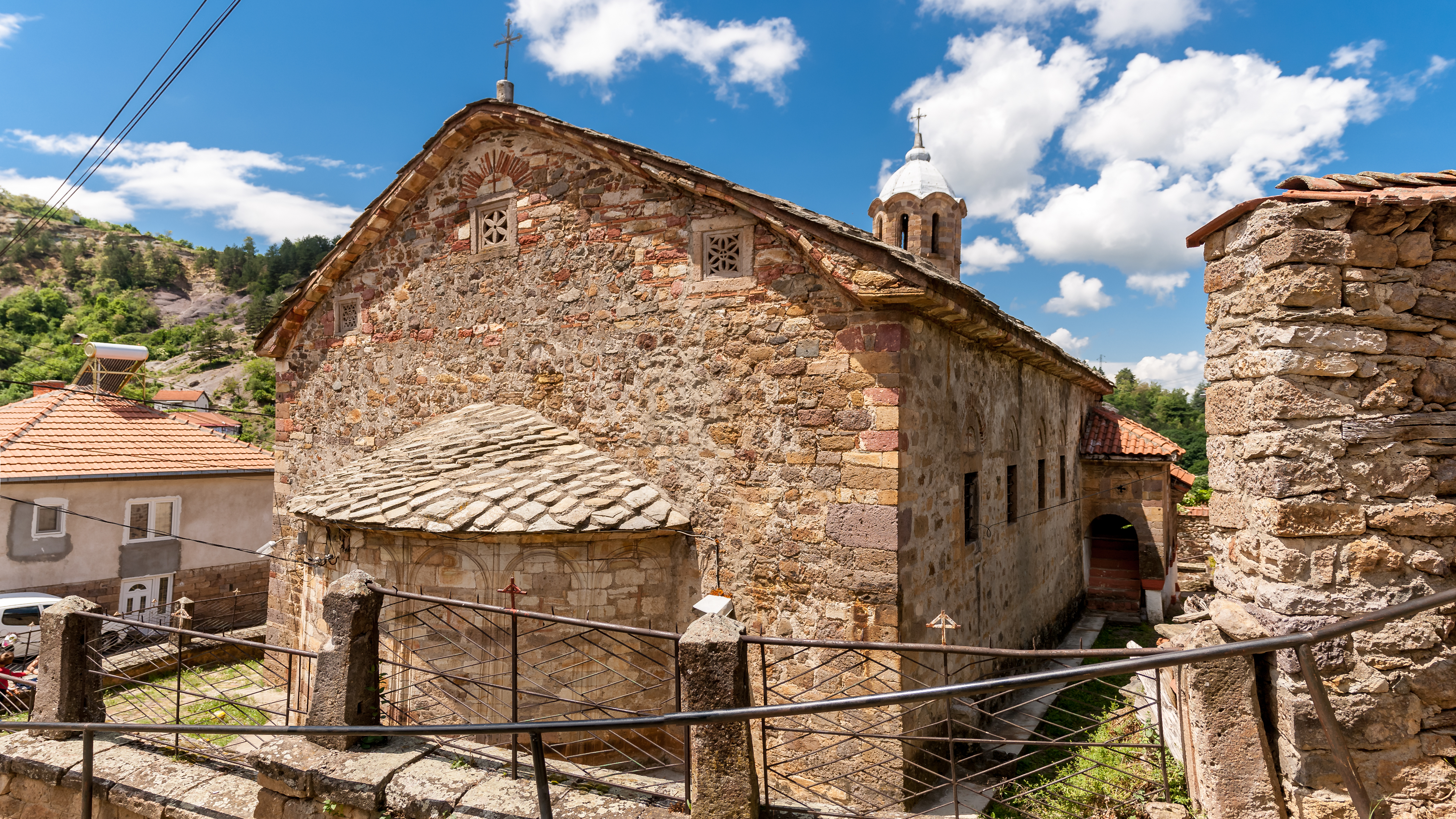 Backside of the St. John the Baptist Church in Kratovo